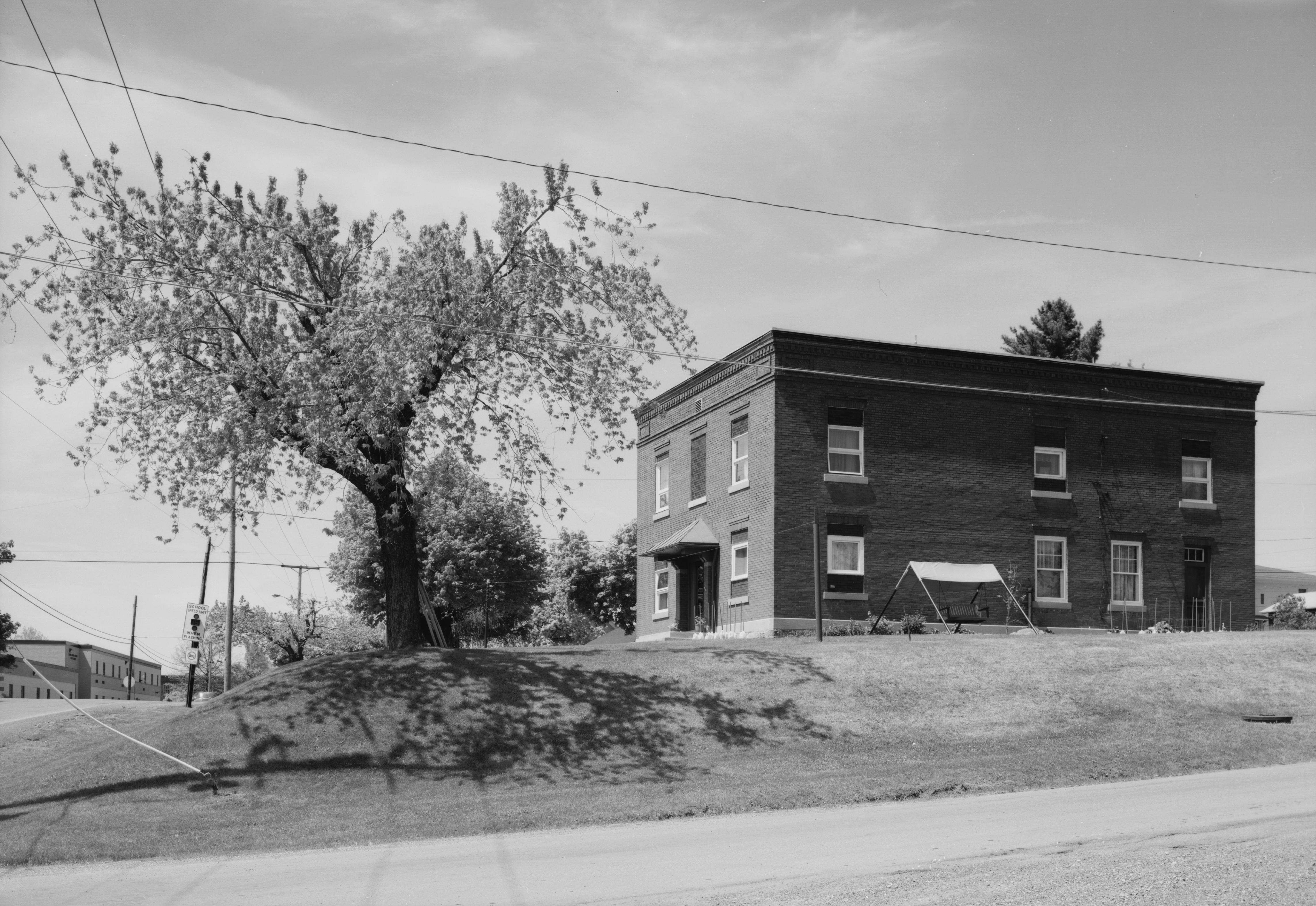 Eastern side of the Cairnbrook office of the Loyalhanna Coal and Coke Company, located on the northwestern corner of the intersection of First Street and McGregor Avenue in Cairnbrook, an unincorporated community in Shade Township, Somerset County, Pennsylvania, United States. Built in 1912, it is a part of the Cairnbrook Historic District, a historic district that is listed on the National Register of Historic Places.